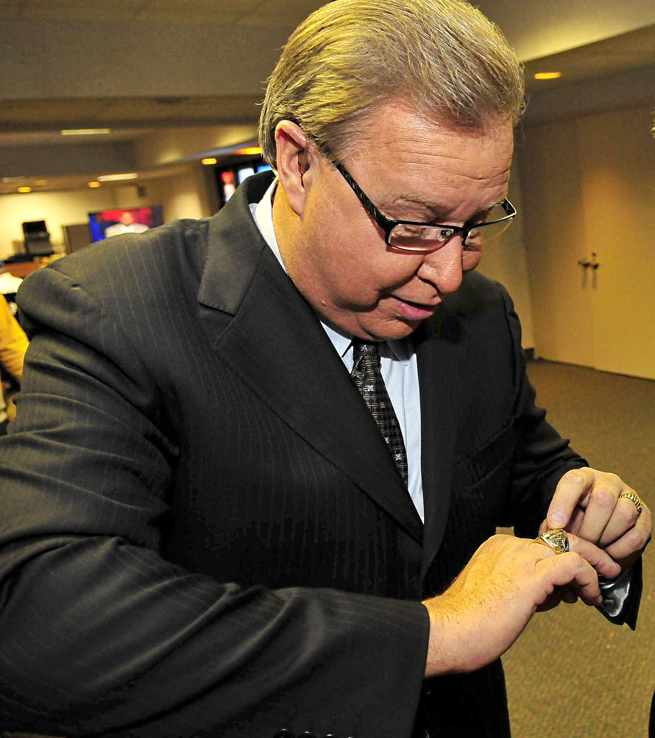 ORCHARD PARK, N.Y. (Nov. 16, 2008) ESPN sports analyst Ron Jaworski, left, shows his Super Bowl ring to Engineman 1st Class Brad Vincent, assigned to the littoral combat ship USS Freedom (LCS 1), during a Monday Night Football game at Ralph Wilson Stadium. Freedom, the first of two littoral combat ships designed to operate in shallow water environments, is in Buffalo for a scheduled port visit. The ship was commissioned Nov. 8 in Milwaukee and will make other port calls en route to Norfolk, Va. (U.S. Navy photo by Mass Communication 3rd Class Specialist Kenneth R. Hendrix/Released)